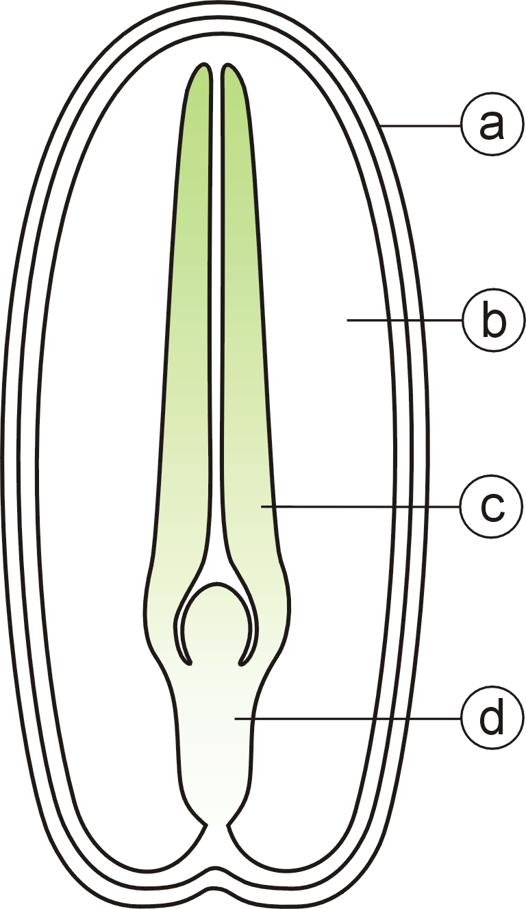 Dicotyledon (former Magnoliopsida) seed: a - seedcoat, b - endosperm, c - cotyledons, d - embryo.